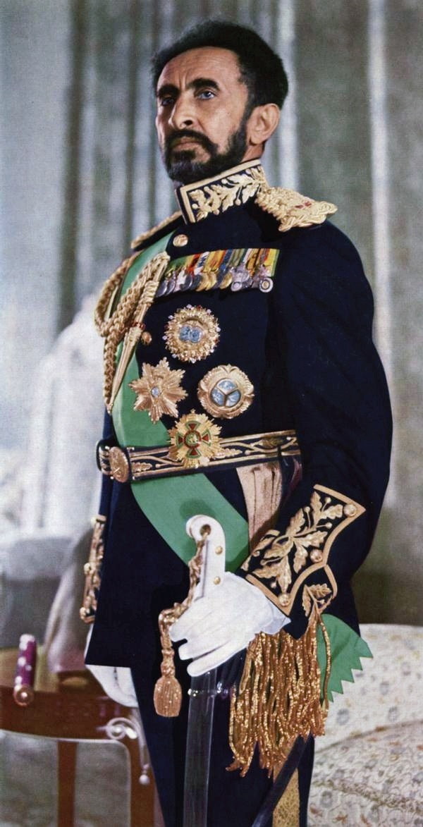 His Imperial Majesty Emperor Haile Selassie I